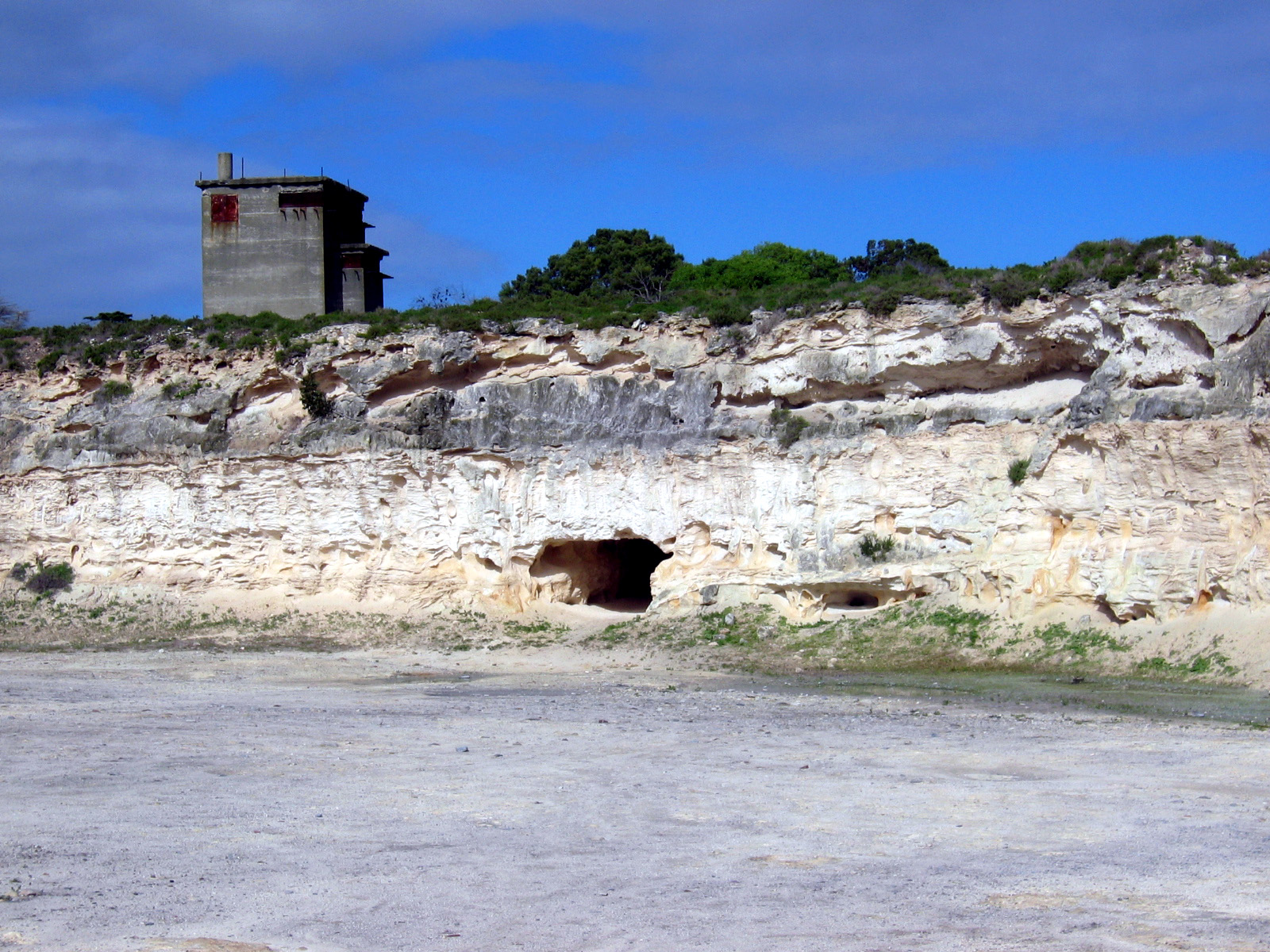 South Afrika, Robben Island, Quarry